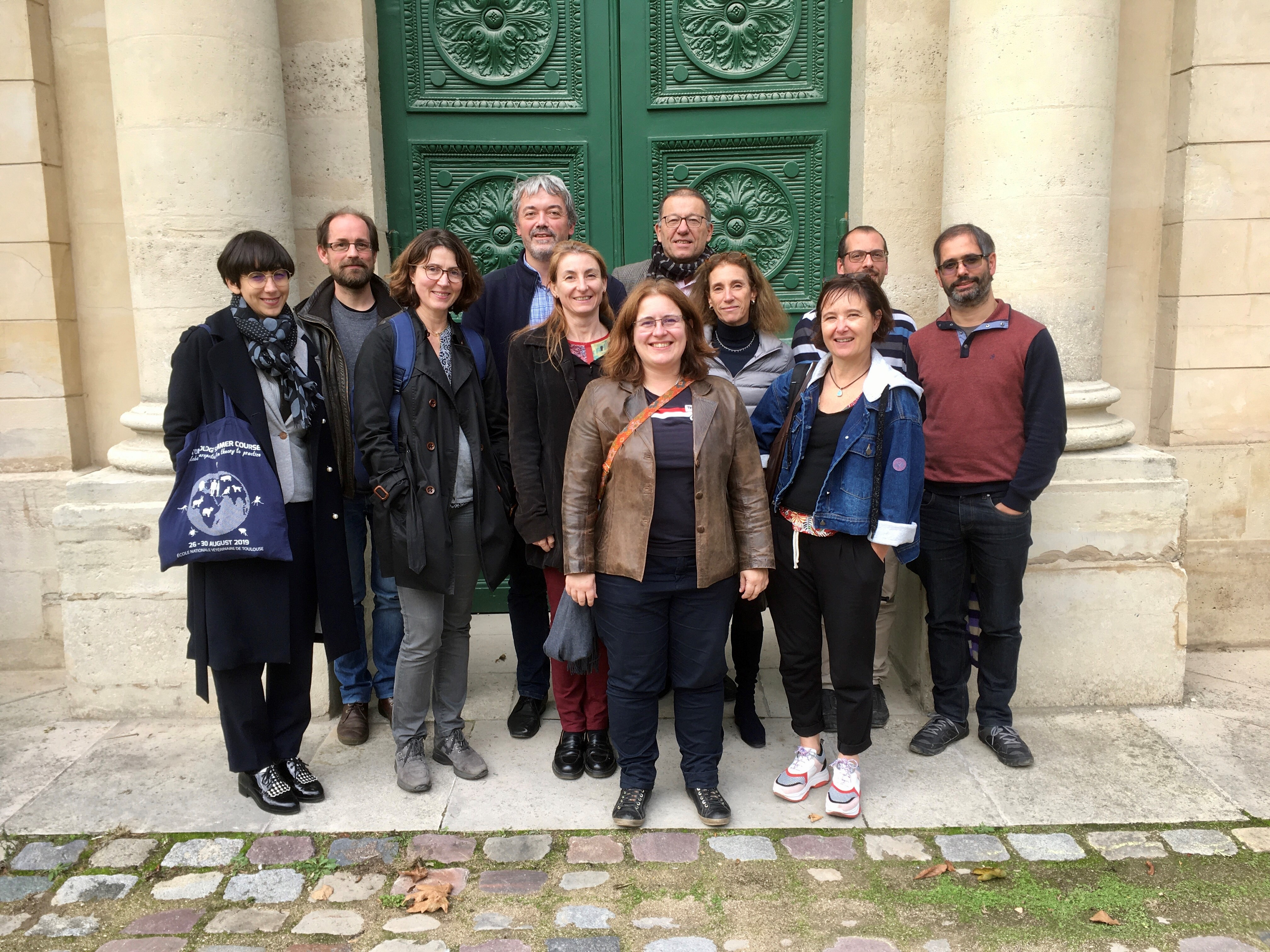 Conseil d'Administration de la Société Française de Parasitologie - 22 octobre 2019 Photograph taken in the gardens of the Muséum National d'Histoire Naturelle, Paris